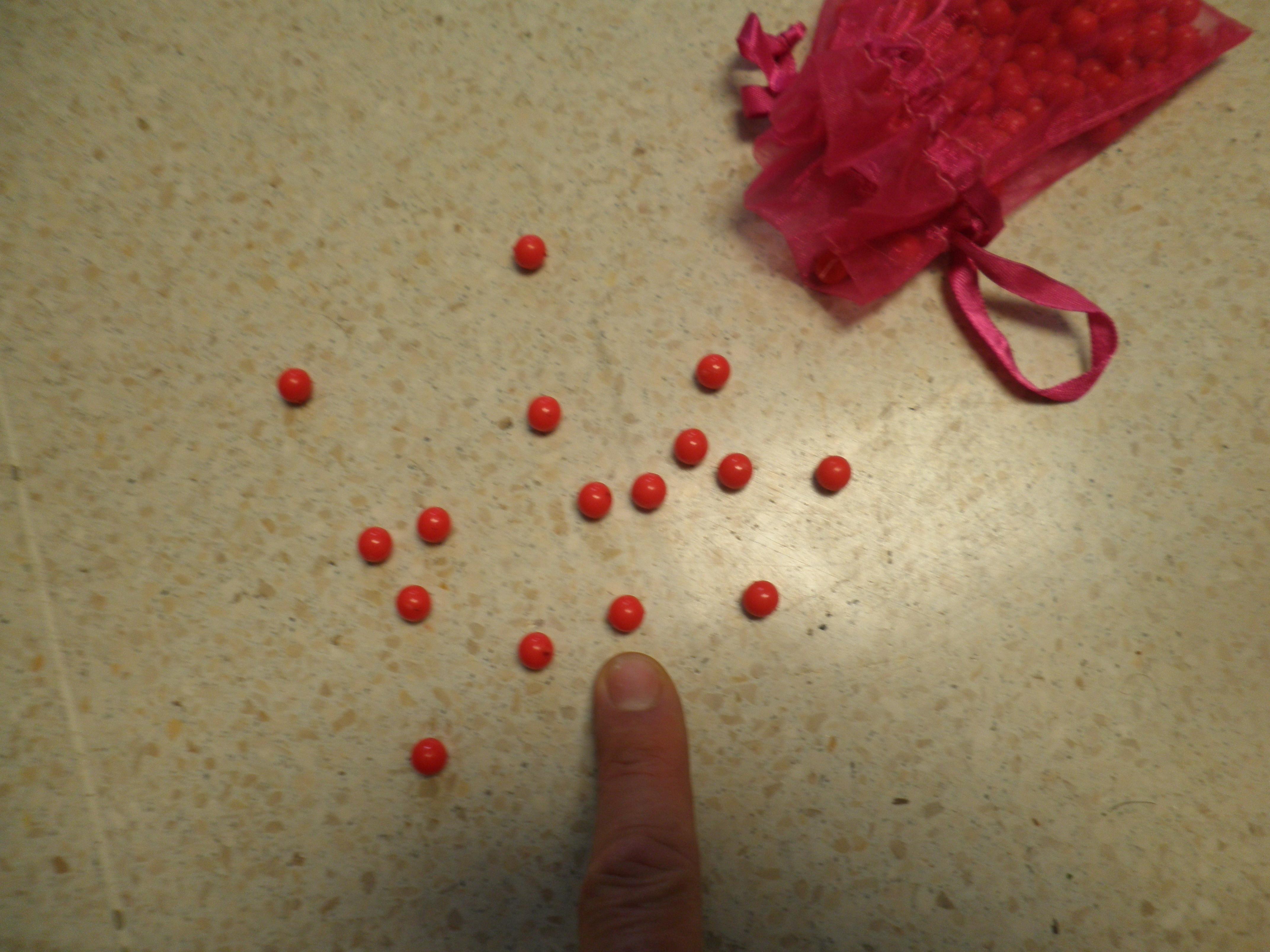 Counting the elements of a set.